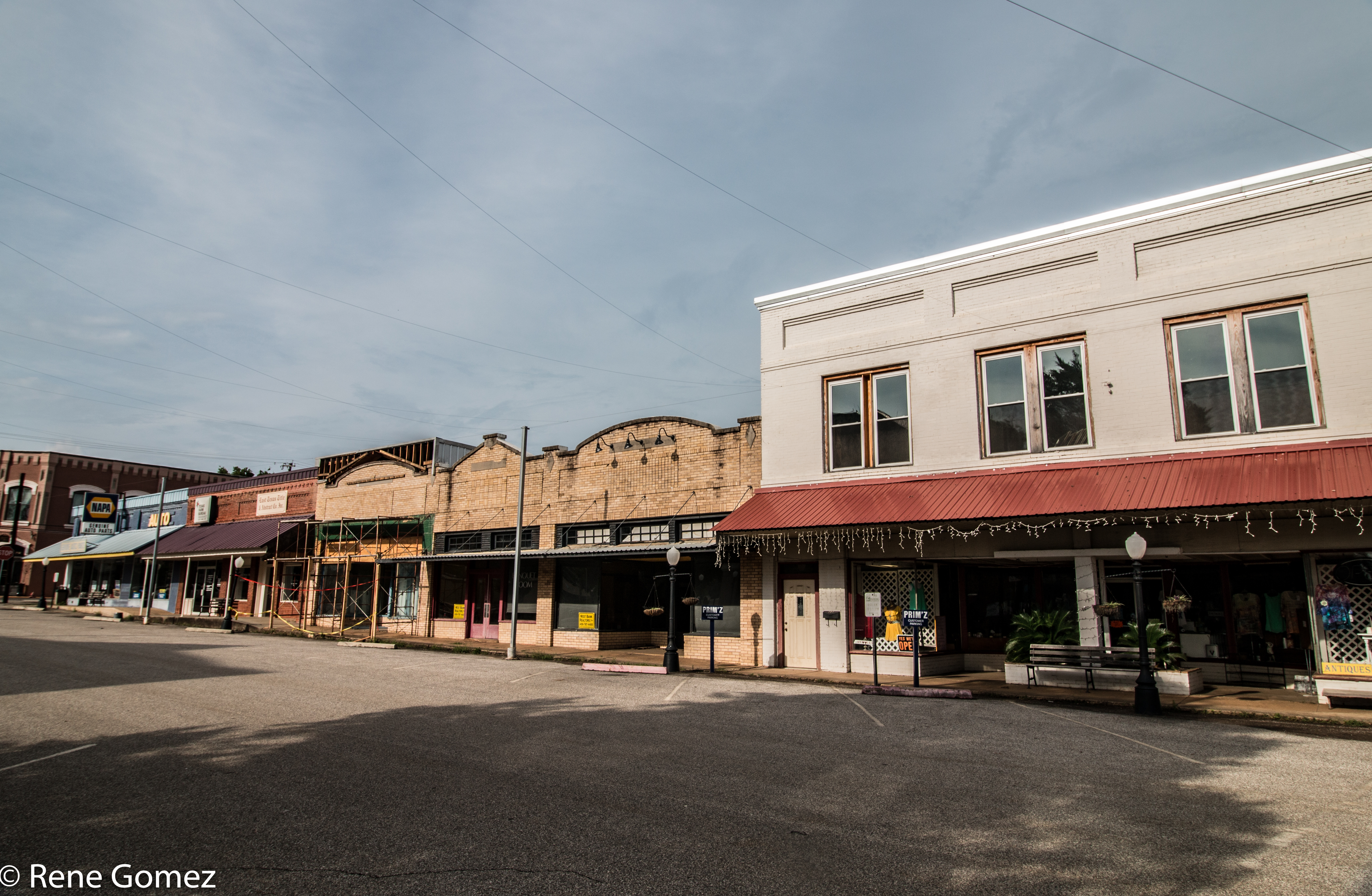 The town of Hemphill, Texas